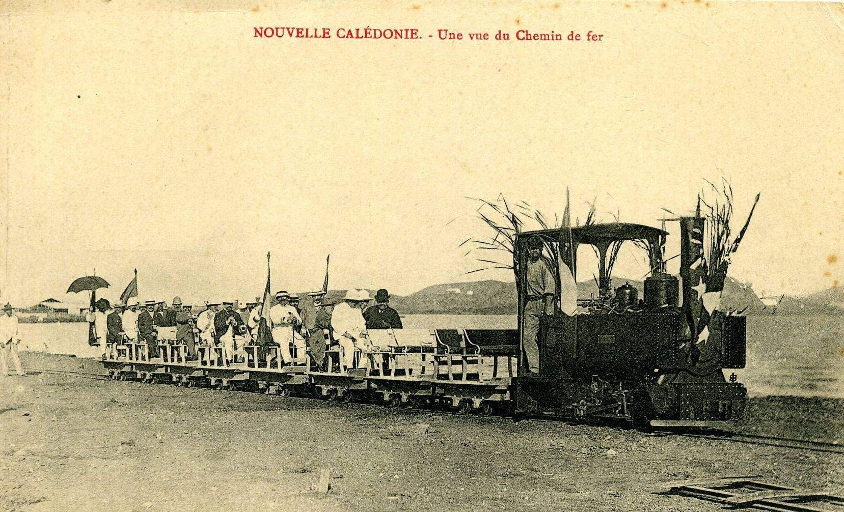 Nouvelle Calédonie - Une vue du Chemin de ferNew Caledonia